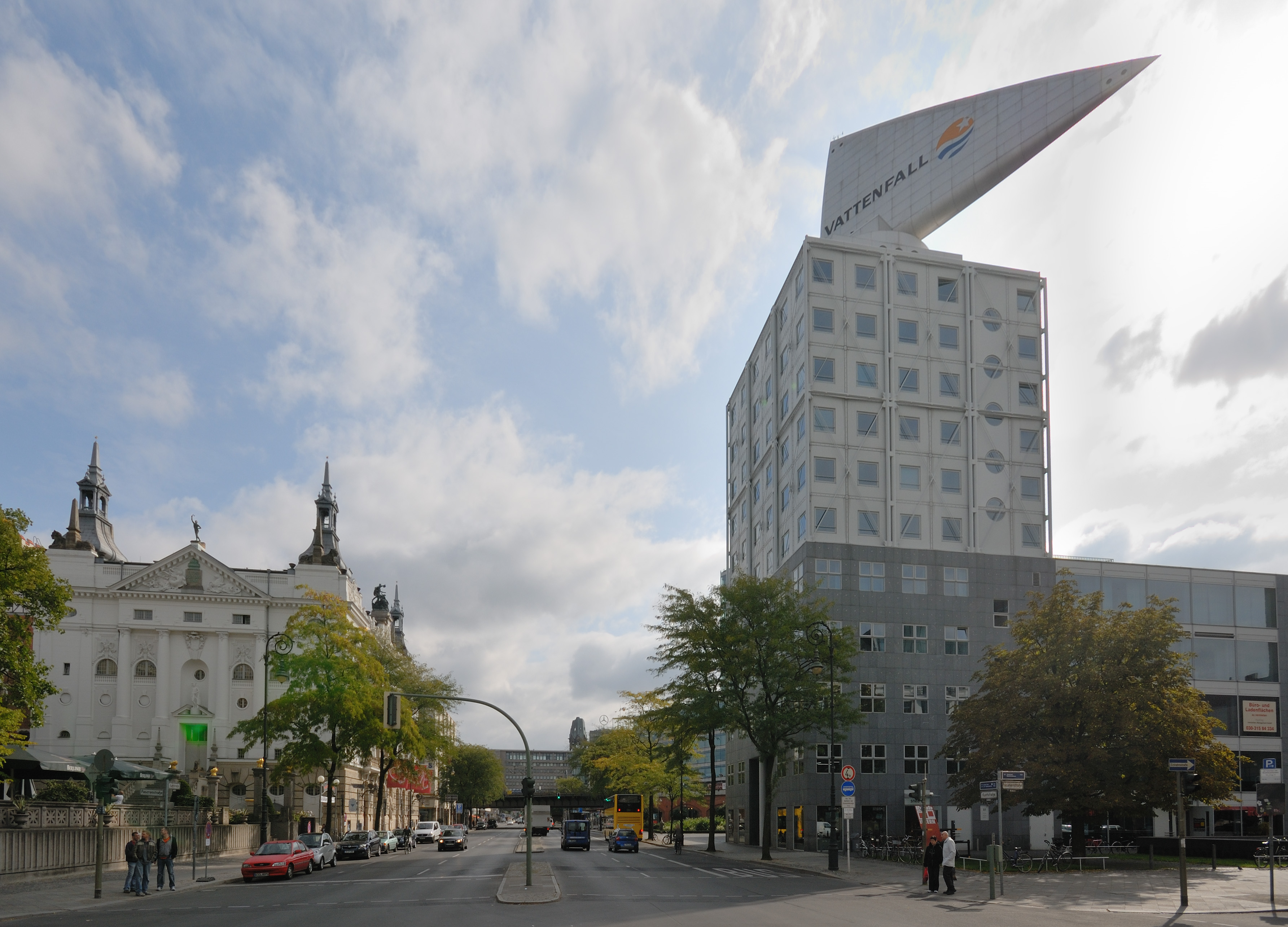 "Kant Triangle" building by Josef Paul Kleihues in Berlin Charlottenburg-Wilmersdorf.